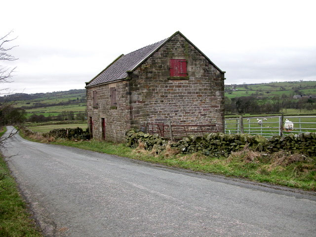 Barn near Brund A substantial barn still in good order. Many similar barns in this area have fallen into disrepair.